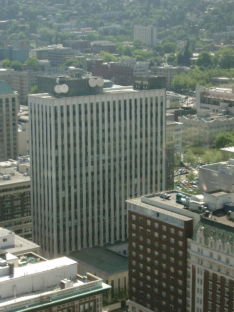 The Union Bank of California Tower in Portland, Oregon as seen from the US Bancorp Tower. Taken by author.